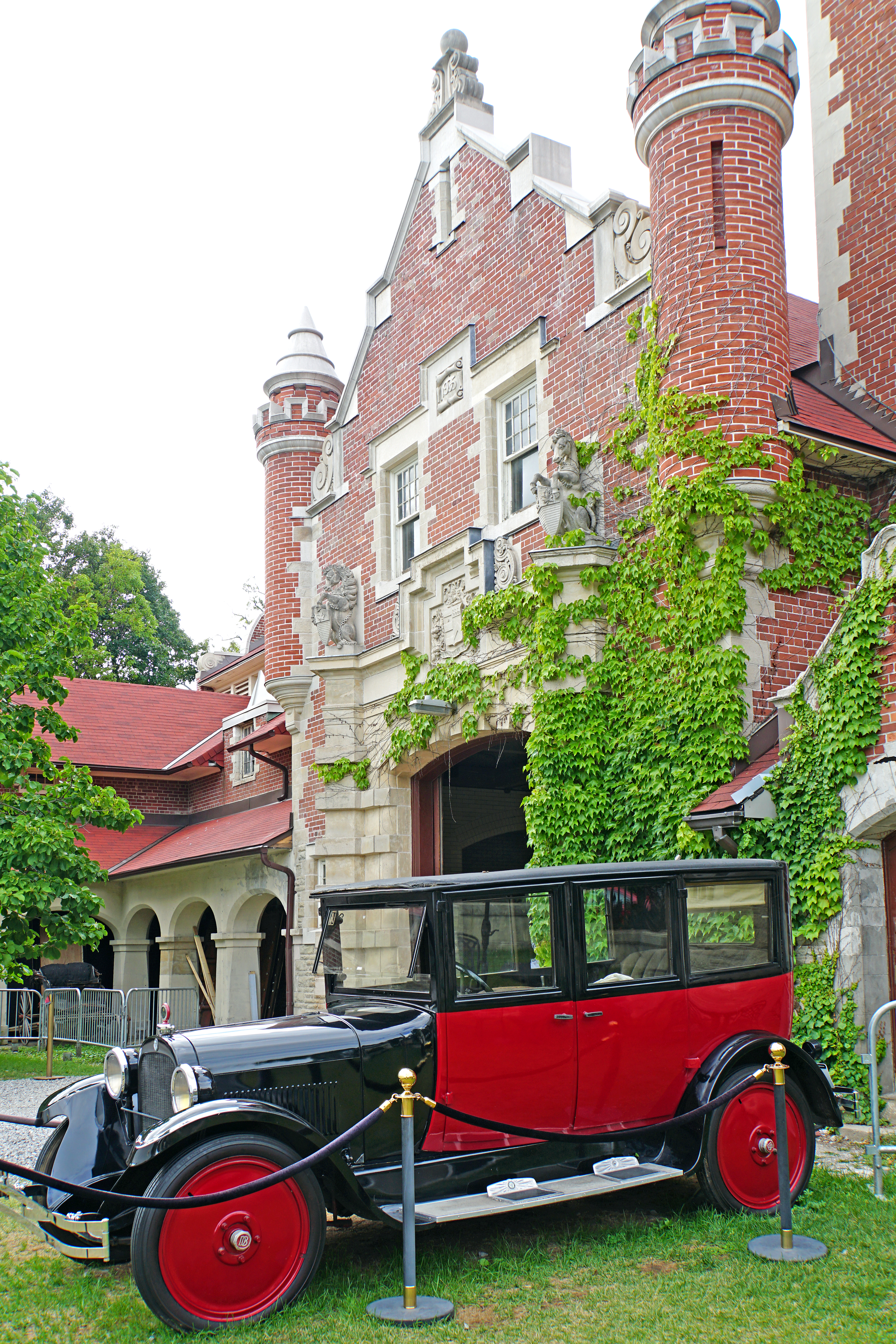 PLEASE, NO invitations or self promotions, THEY WILL BE DELETED. My photos are FREE to use, just give me credit and it would be nice if you let me know, thanks. 1924 Dodge Model D2 Touring Sedan 1924 is the year that Case was abandoned. Four Cylinder, Thirty-five horsepower. All steel body - a specialty of the Dodge Brothers and one of the firsts for its time. An affordable everyman’s car, Dodge still managed a few upscale touches: solid wheels, running board steps, a taller grille design that was new for 1924. In addition, this one even wears double bumpers that were an option. And in the rear: roll down windows, heat vent and sunshades. The Carriage Room and Garage features vintage automobiles from the early 1900s as well as some old carriages.